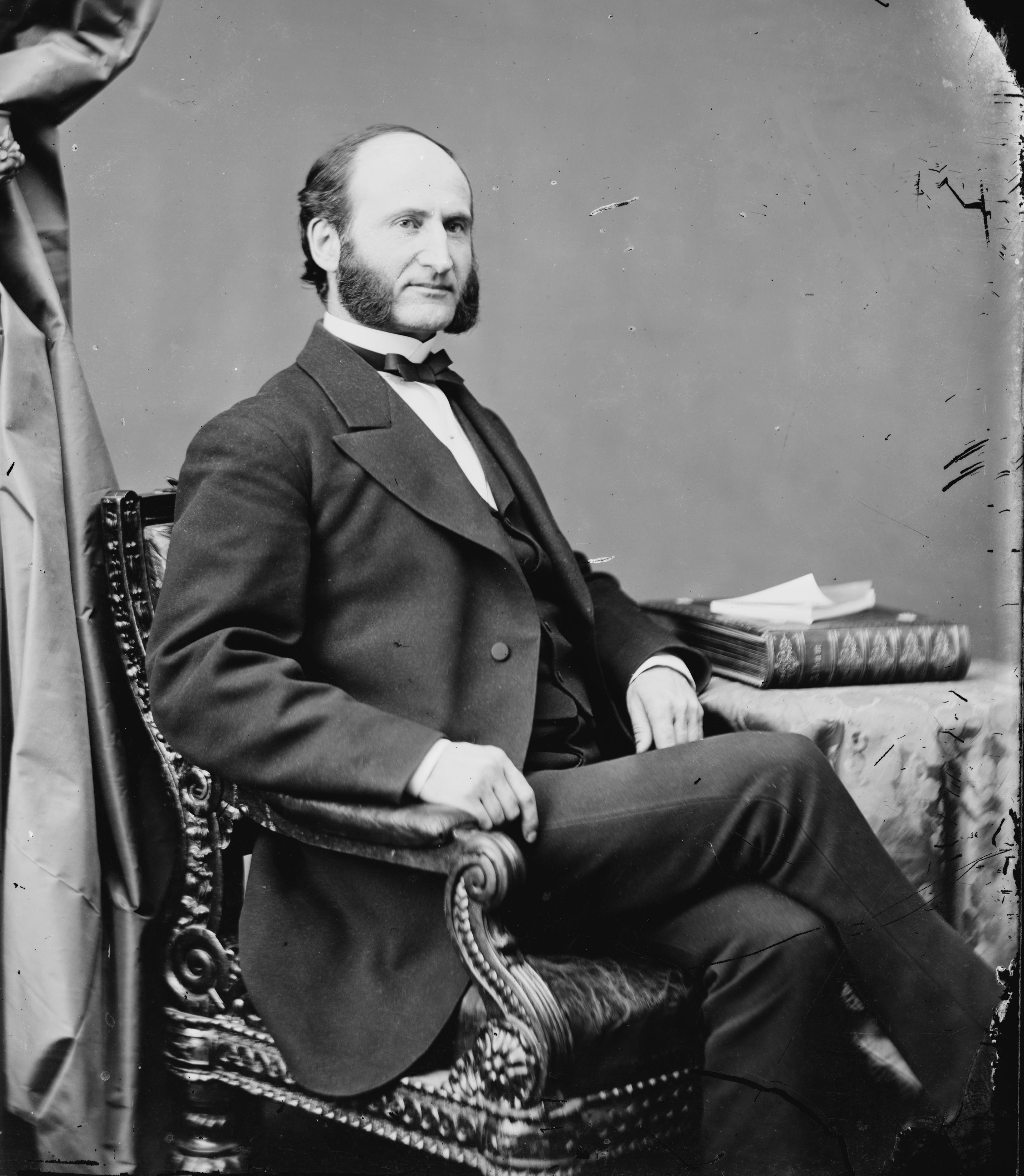 Demas Barnes. Library of Congress description: "Hon. Demas Barnes"